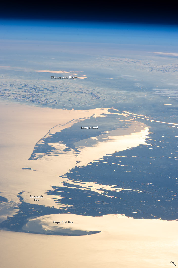 Long Island from space.jpg